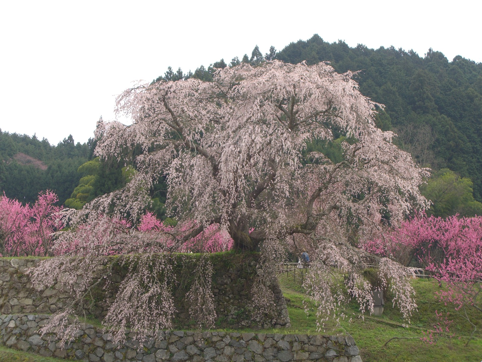 Matabei-zakura tree in Uda, Nara Prefecture, Japan. Taken by the uploader himself.